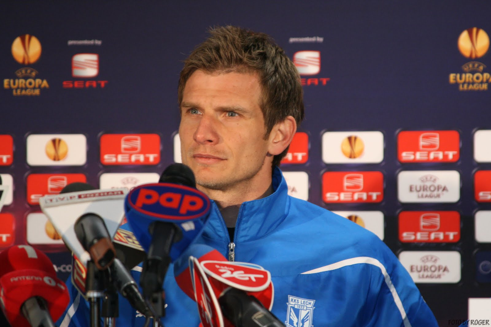 Polish football player Bartosz Bosacki